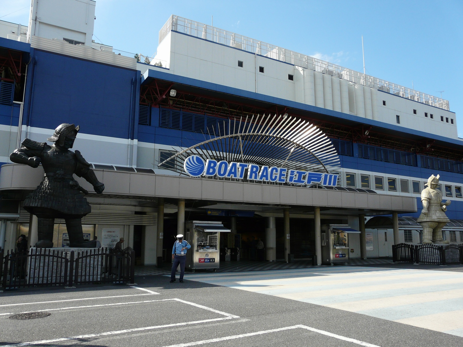 Edogawa-kyotei